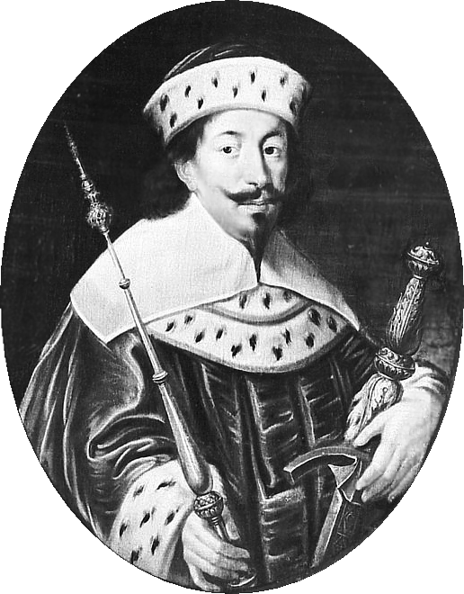 George William, Elector of Brandenburg (1595-1640)